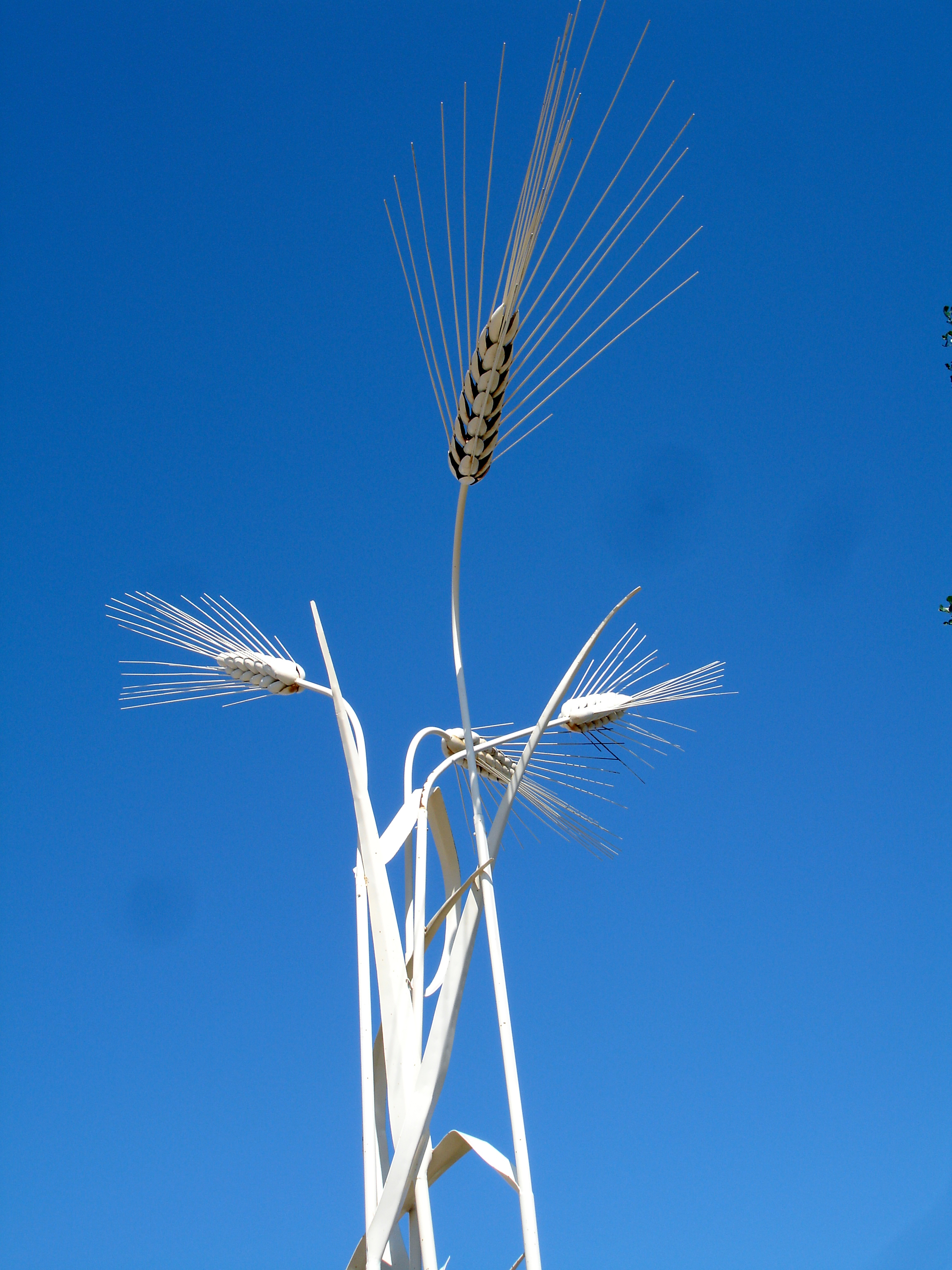 A white metal sculpture of wheat, located in the village of Sceptre, Saskatchewan, Canada.